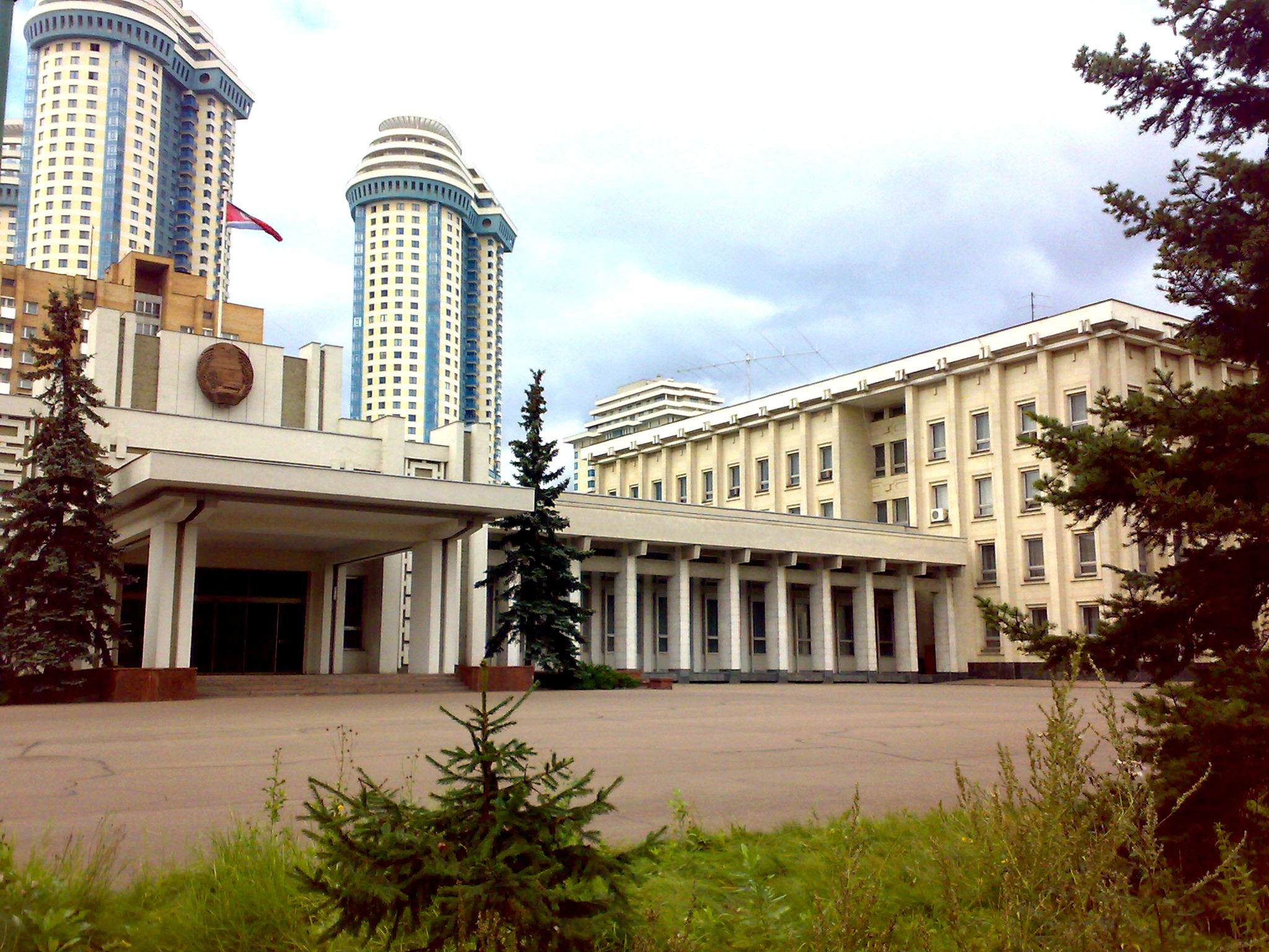 took this image using my mobile in September, 2008. The embassy of North Korea in Moscow.